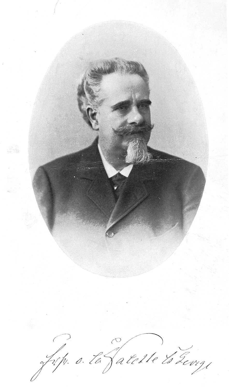 Adolf Frhr. v. la Valette St. George